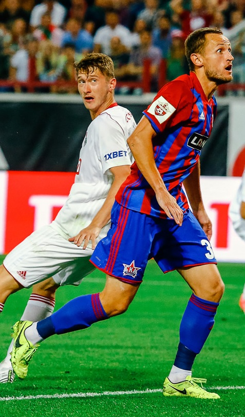 Dmytro Hryshko with FC SKA-Khabarovsk in a game against FC Lokomotiv Moscow.